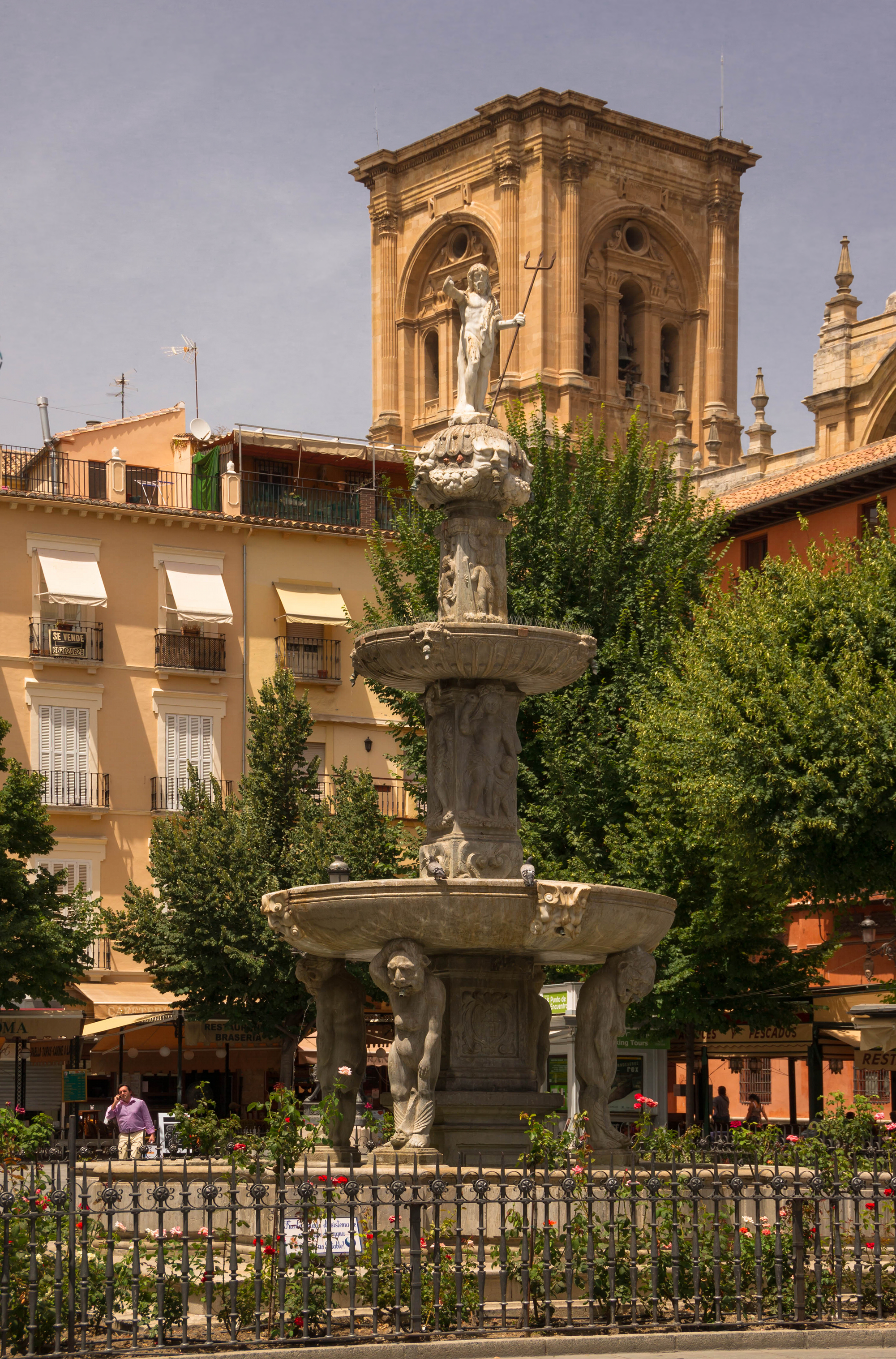 Plaza Bib-Rambla, fountain of Neptune, a tower of the cathedral in background. Granada, Spain